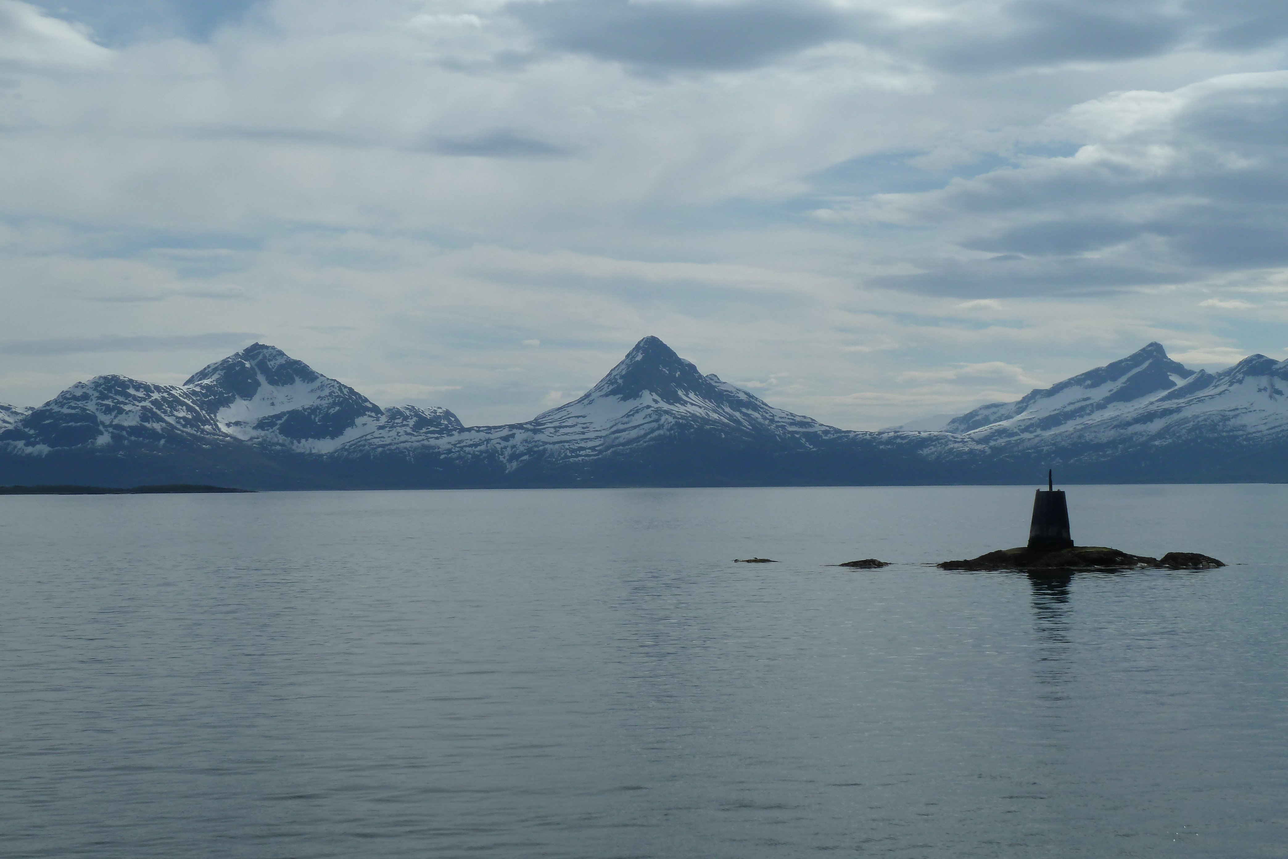 Sagfjorden in Salten, Norway, seen from Skutvik towards Steigen.